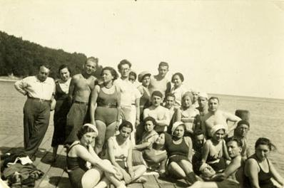 Members of Morgnshtern, on a sailing trip between Gdynia and Warsaw, 1934